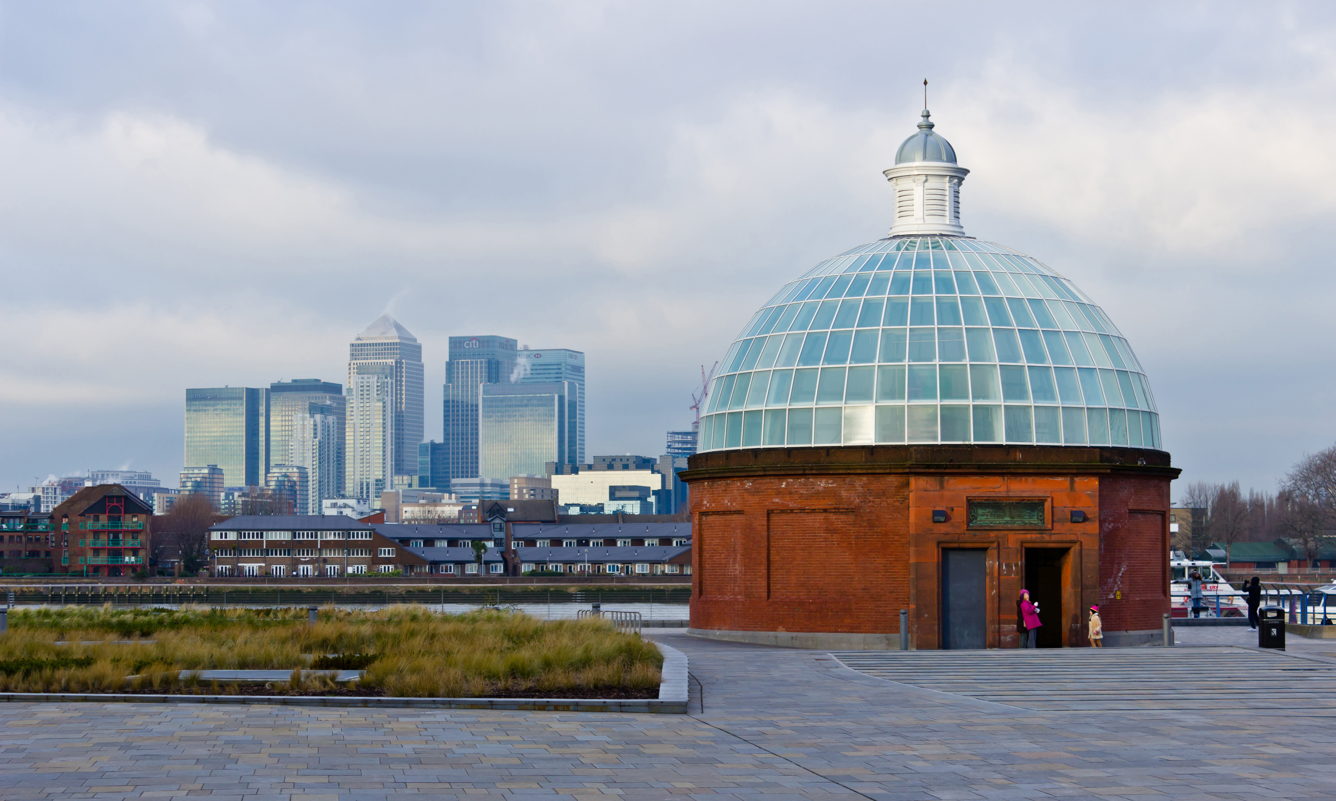 Entrance to the Greenwich foot tunnel, southern (Greenwich) side, with a view on Canary Wharf